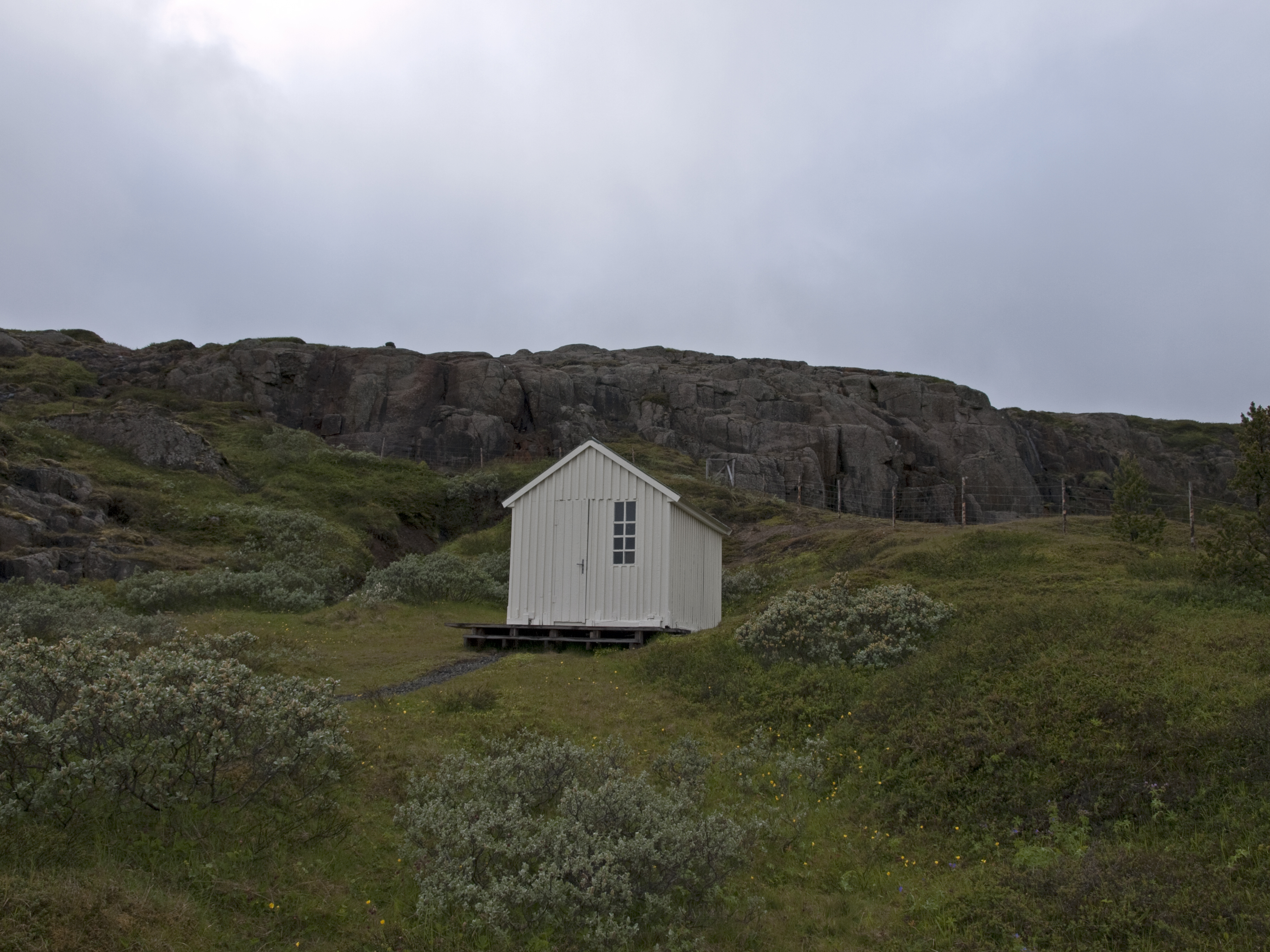 The hut of Jóhannes Sveinsson Kjarval, 94 road, IcelandÍslenska: Kjarvalshammur